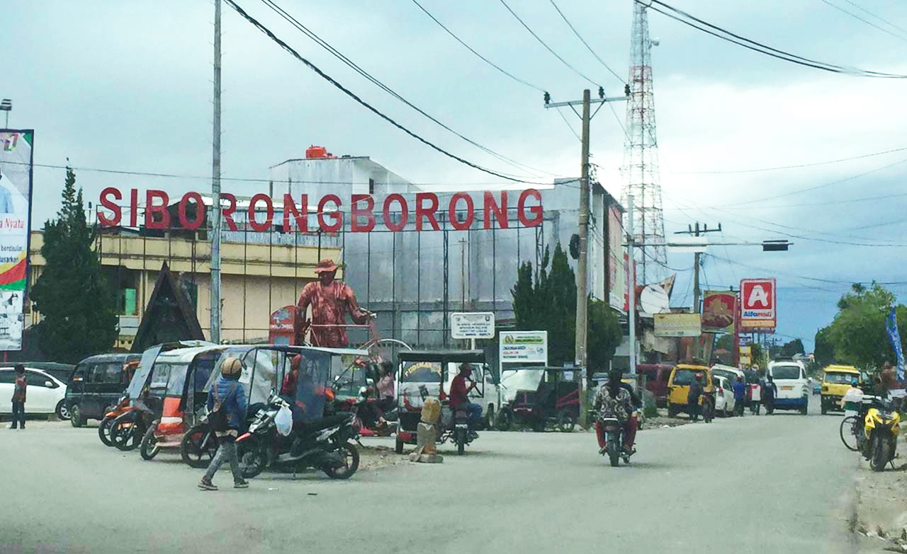 Welcome gate to Siborongborong, Tapanuli Utara